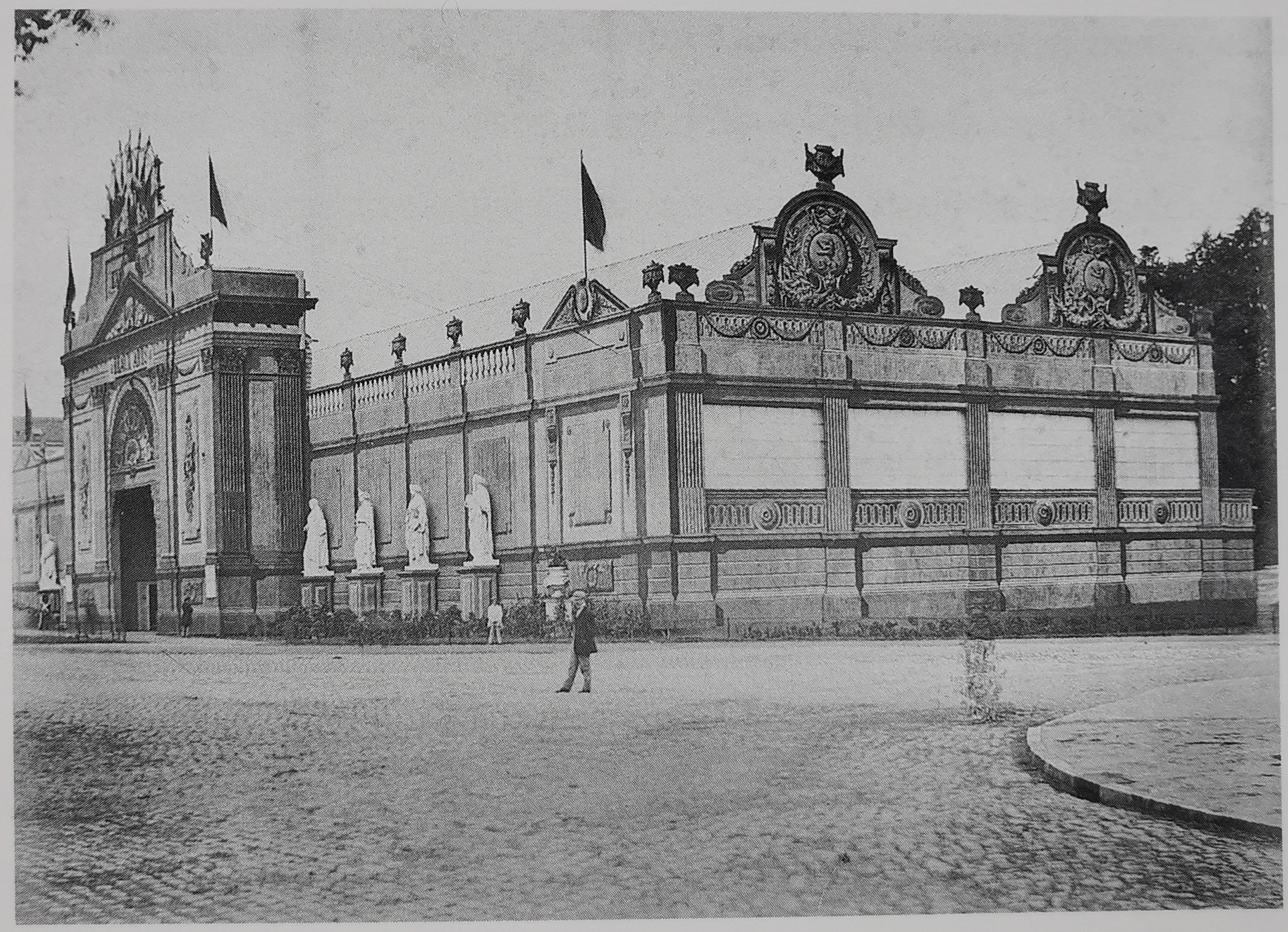 Pavilion of the Brussels Salon of 1863 (photograph by Louis Ghémar, Gemeentemuseum Ieper)